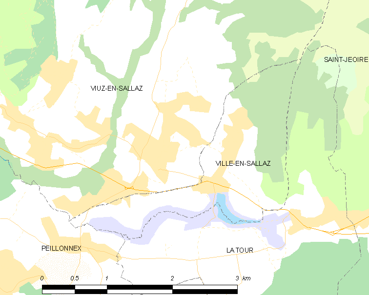 Map of French municipality Ville-en-Sallaz